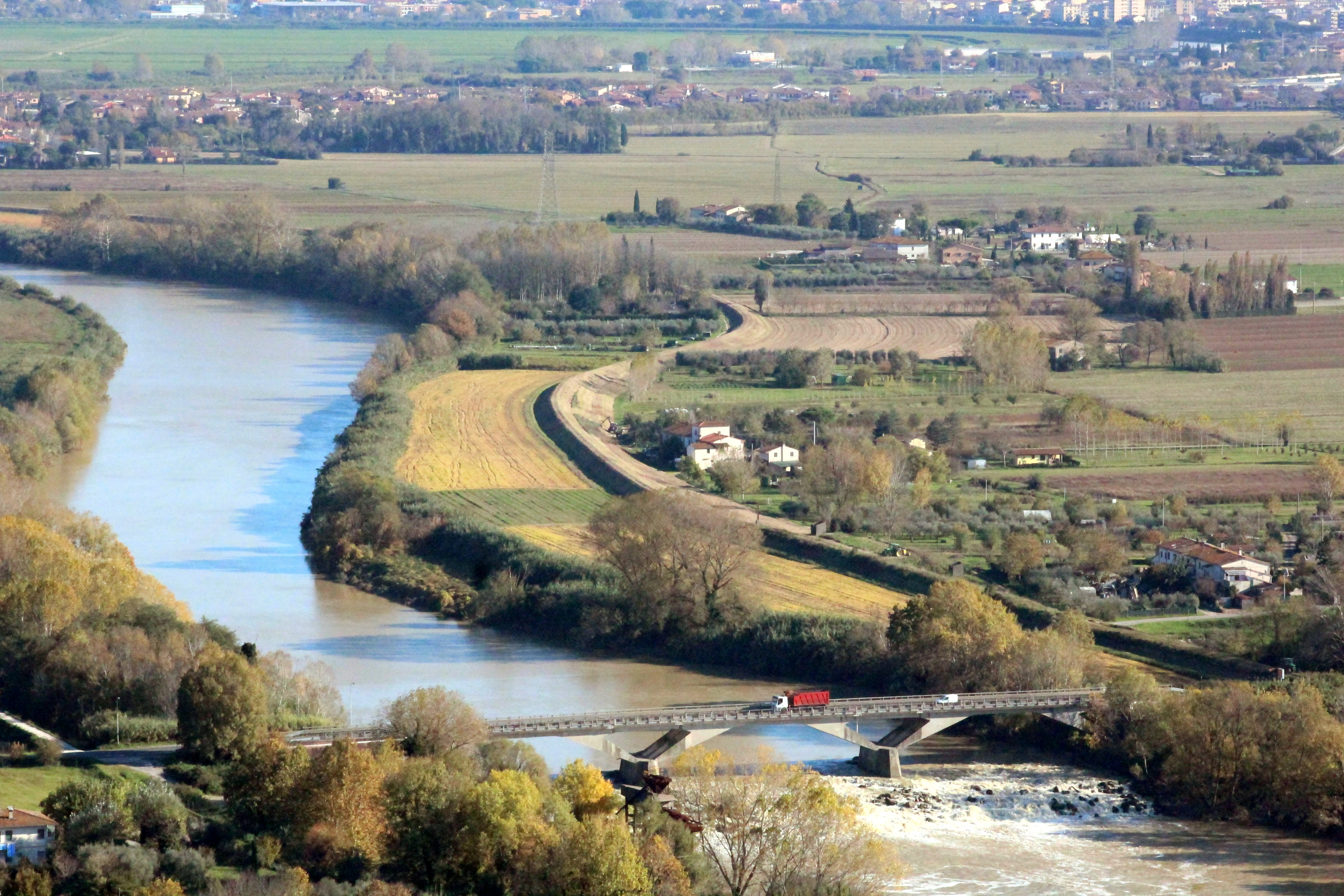 The Arno River in Vicopisano, Province of Pisa, Tuscany, Italy